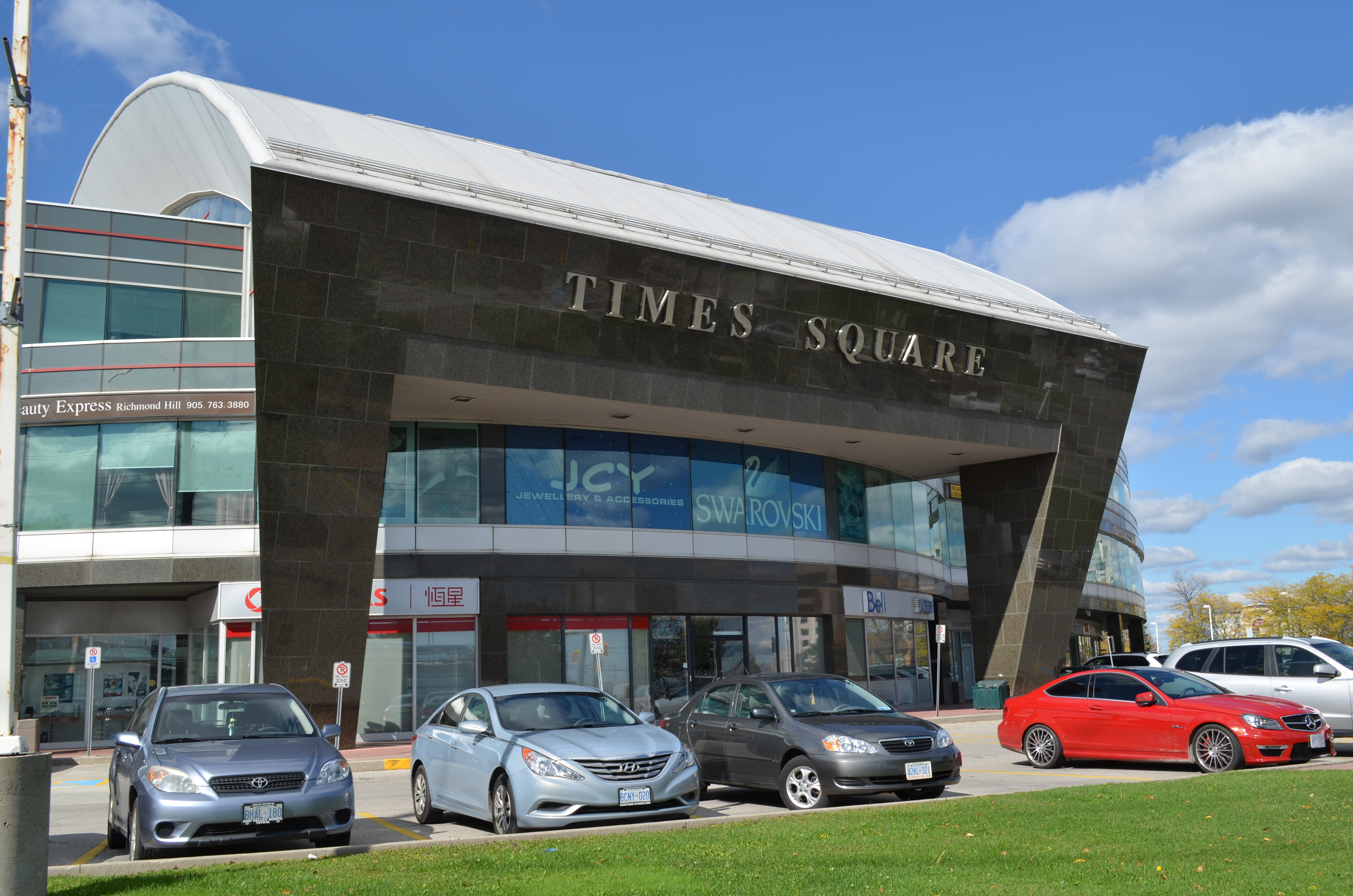 Richmond Hill Times Square (550 Highway 7, Richmond Hill, Ontario, Canada)